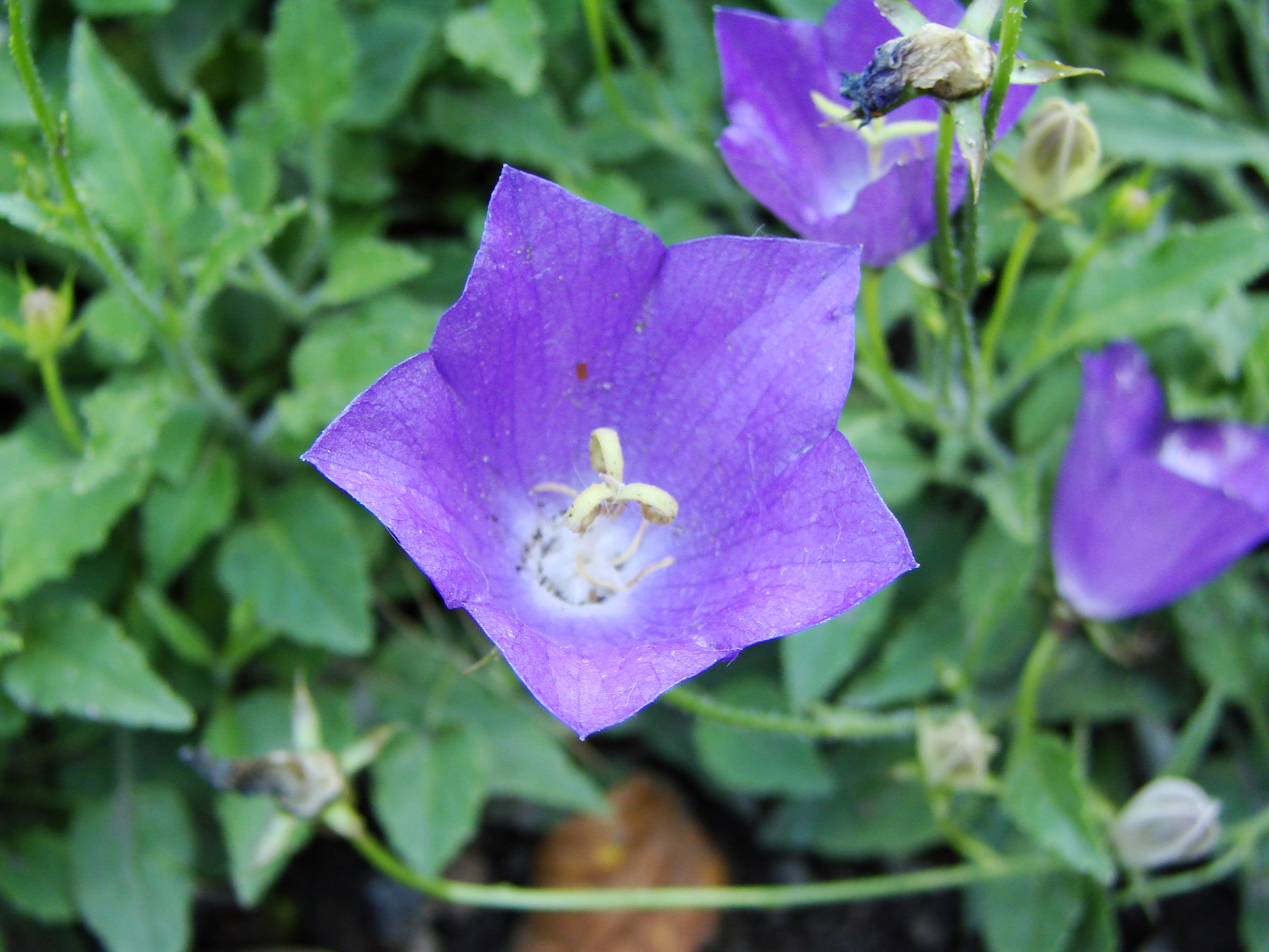 Picture taken in the university botanical garden of Wrocław (Poland): Campanula raineri Perpenti